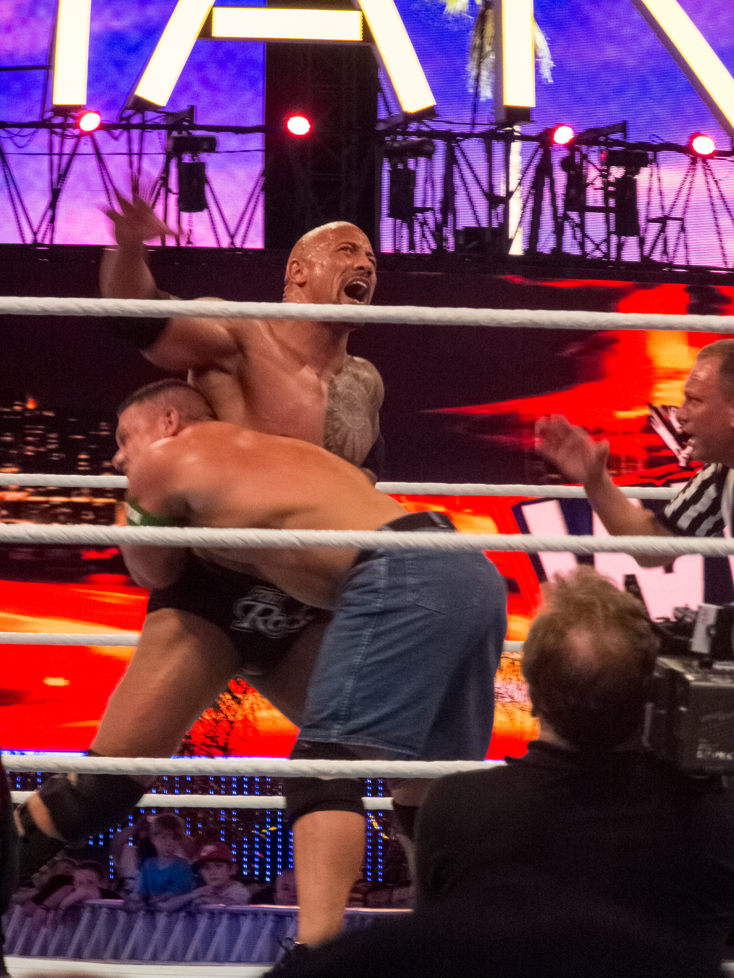 WWE Wrestlemania 28 - The Rock vs John Cena